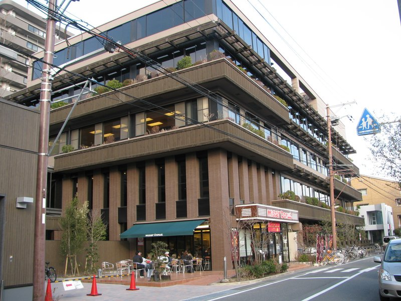 Headquarters of Mister Donut Japan (Suita, Osaka)